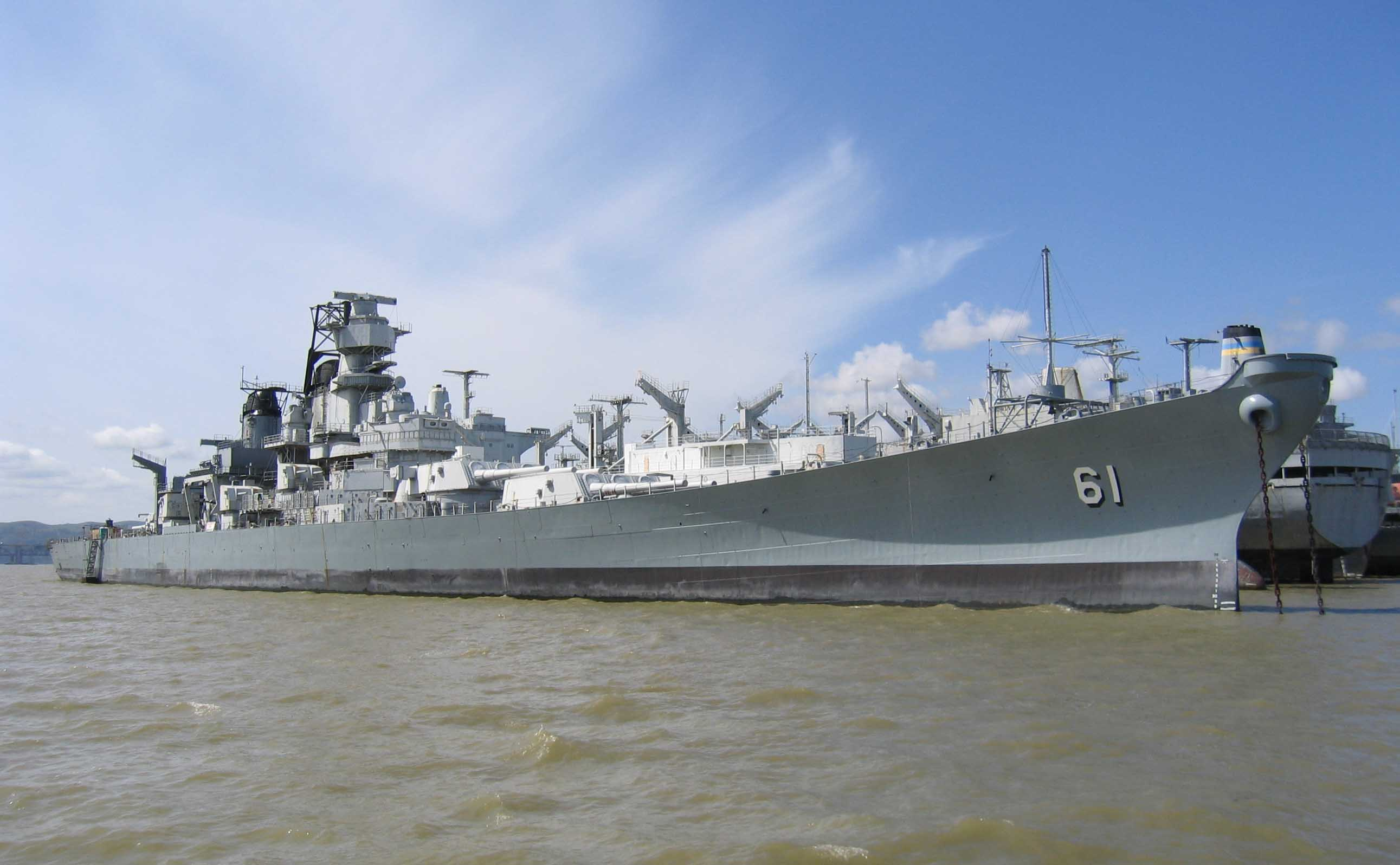 Photograph by Ken Freeze - Taken March 26, 2006 from M/V Journey - Martinez, CA